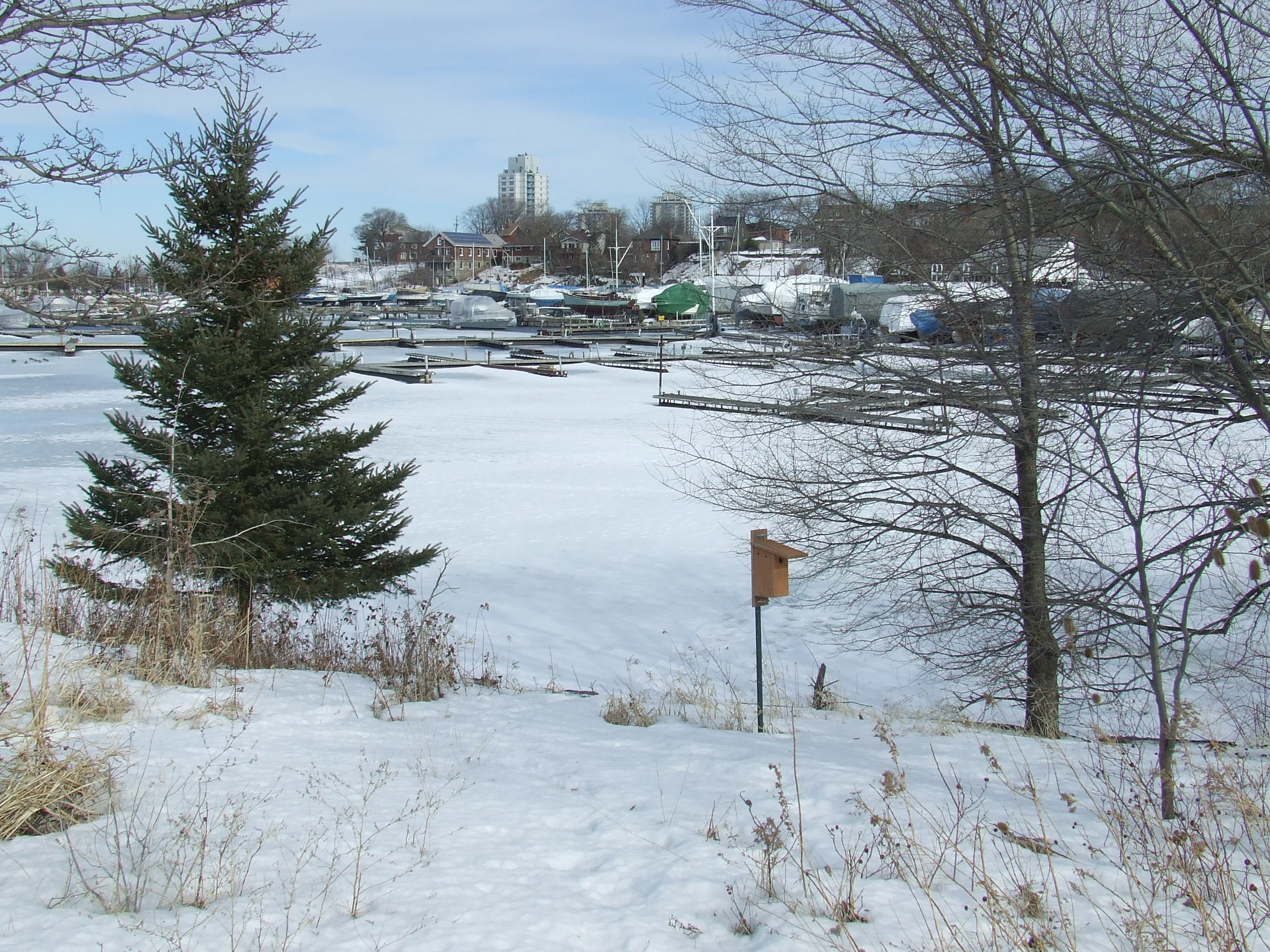 Hamilton Marina in Winter 2014